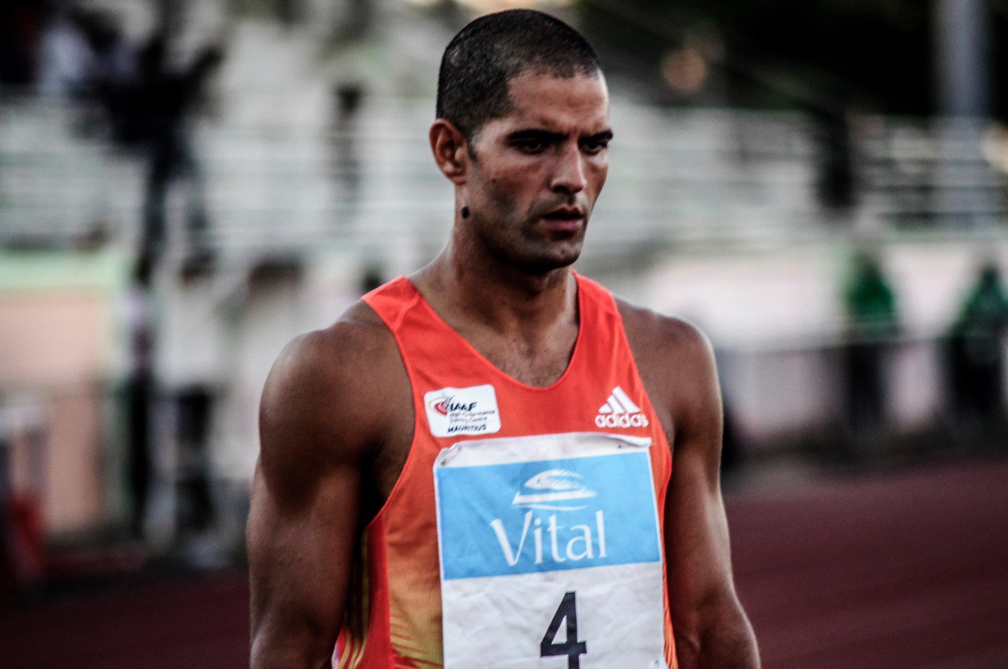 400m Preparation